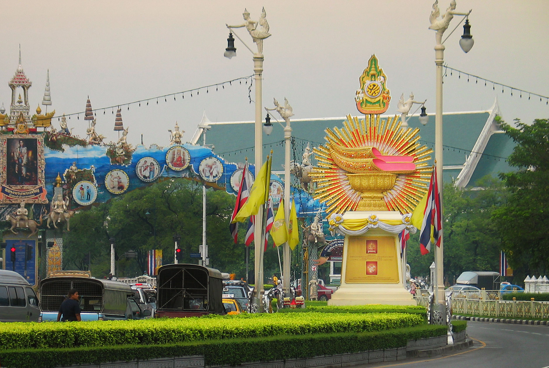 "The Royal Slippers", one of several "exhibits" showing the Royal Thai Regalia on Ratchadamnoen Avenue in Bangkok in honour of the 60th anniversary of H.M. King Bhumibol Adulyadej's ascension to the throne (9 June 2006).